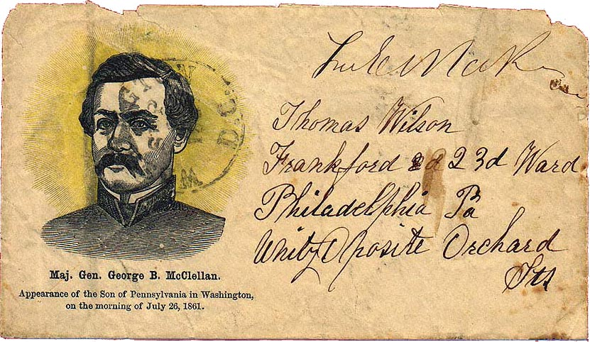 Maj. Gen. George B. McClellan "Patriotic Cover" honoring his arrival in Washington on July 26, 1861, with manuscript Congressional frank. Postmark: Washington, DC, September 6, 1861 (CDS)